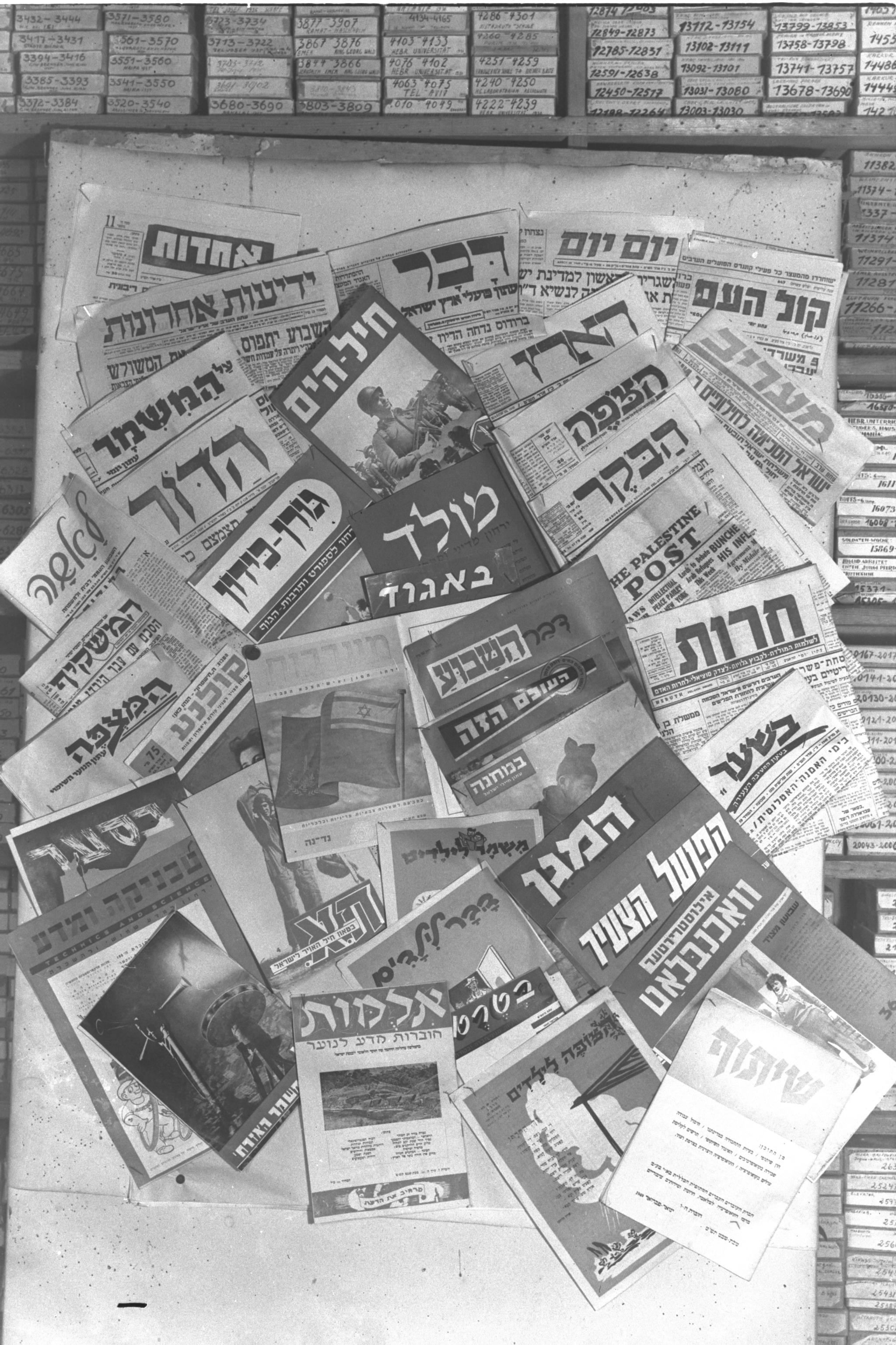 Original Description: A CROSS-SECTION OF LOCAL NEWSPAPERS.